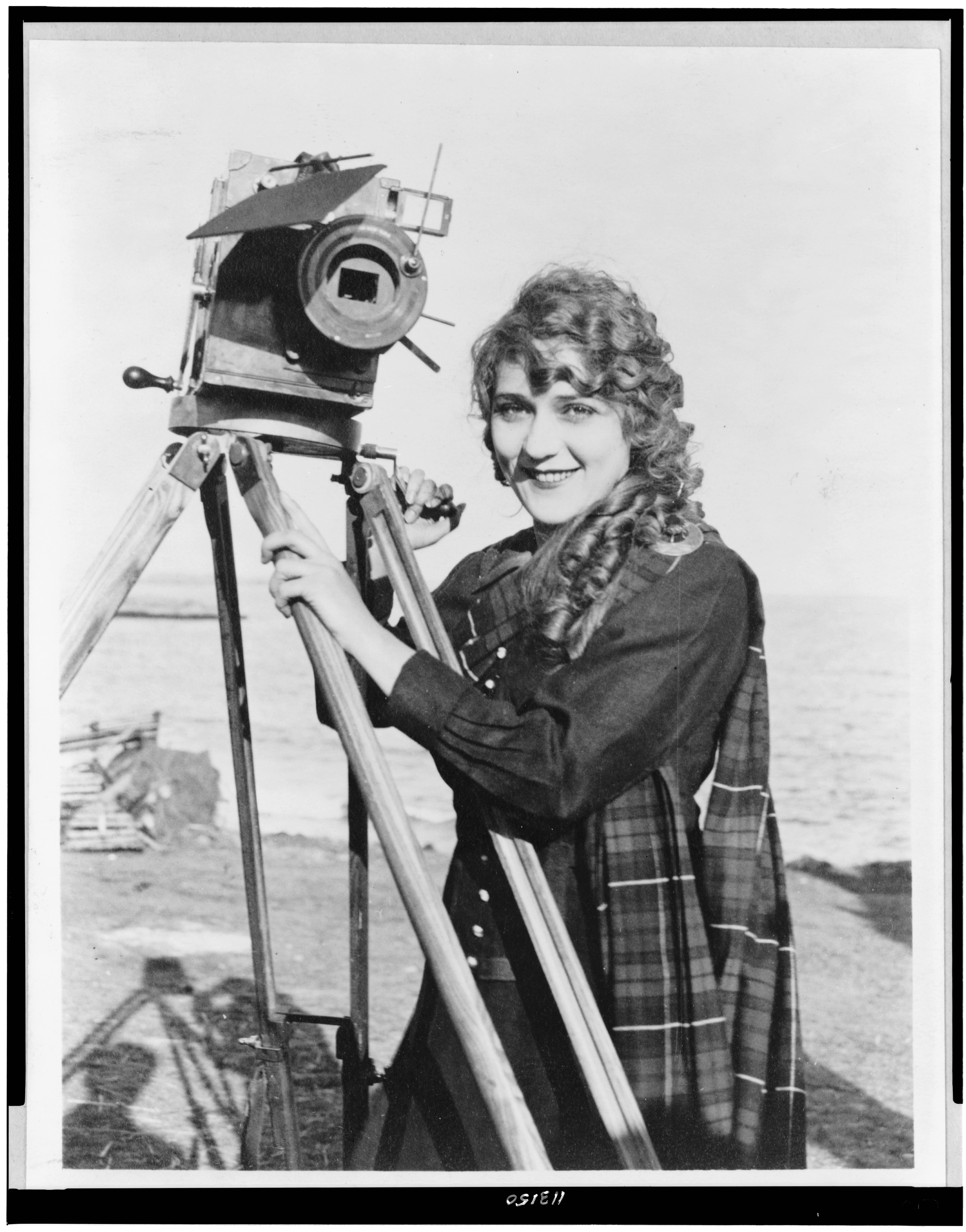 Mary Pickford, half-length portrait, standing, facing slightly left, with motion picture camera, on beach